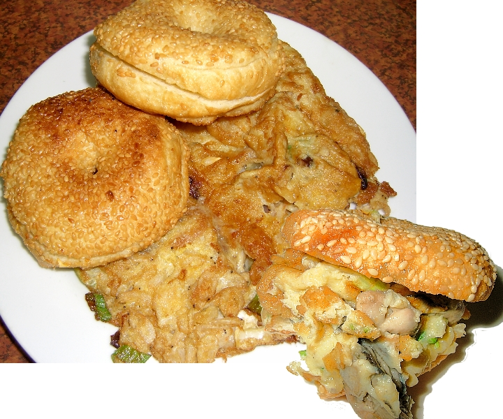 Matsu kompyang